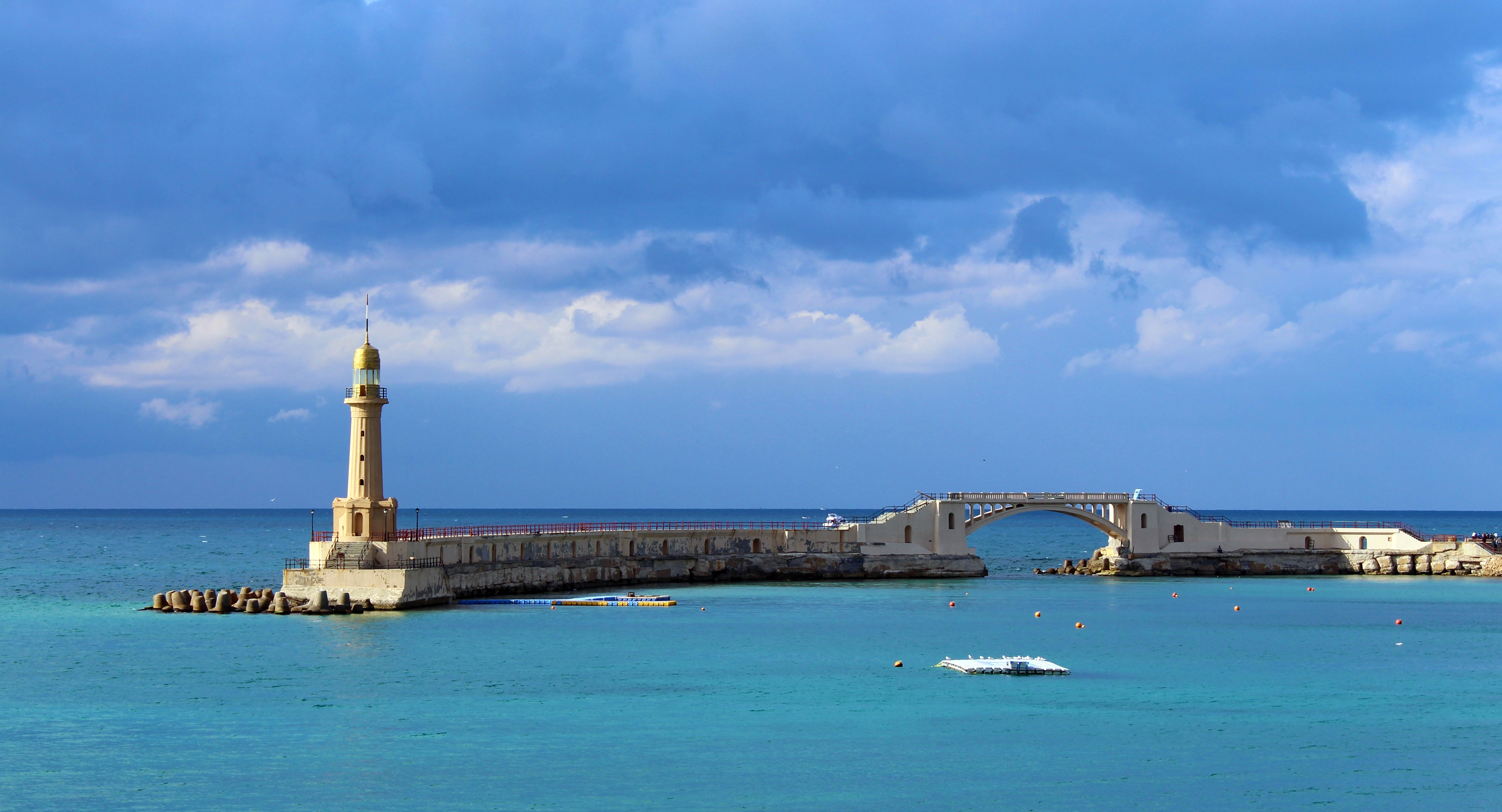 Lighthouse beside the Montazah garden in Alexandria